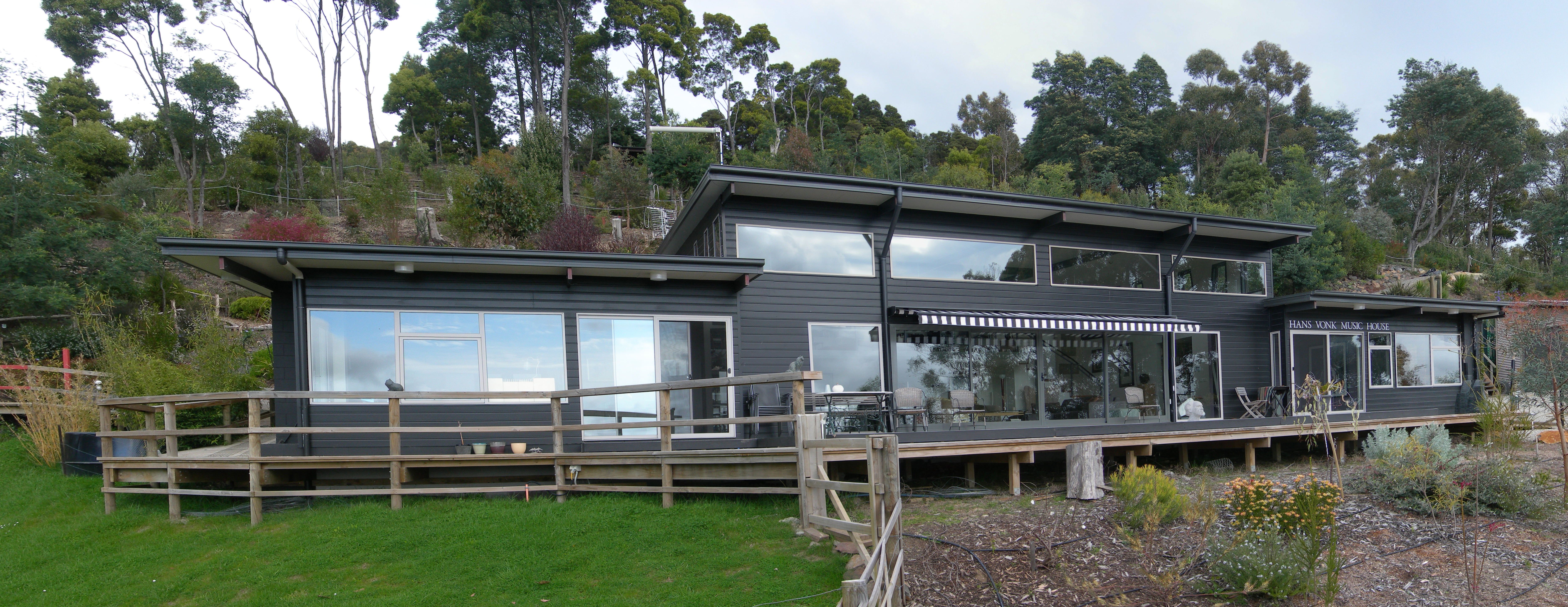 Hans Vonk Music House, 23 Hillside Court, South Spreyton, Tasmania